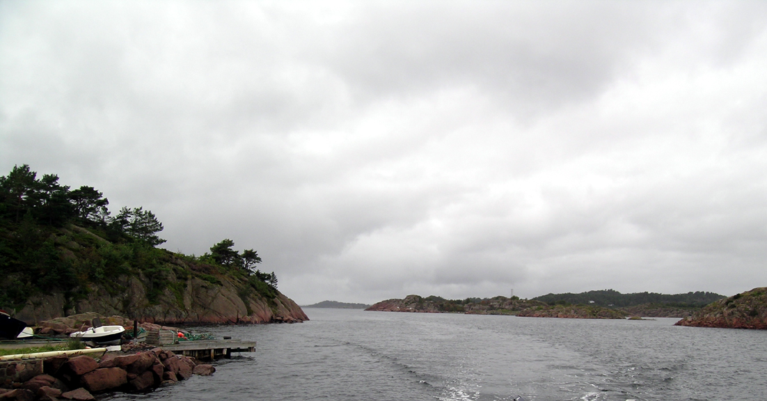 Hesnessund, Grimstad, Norway.